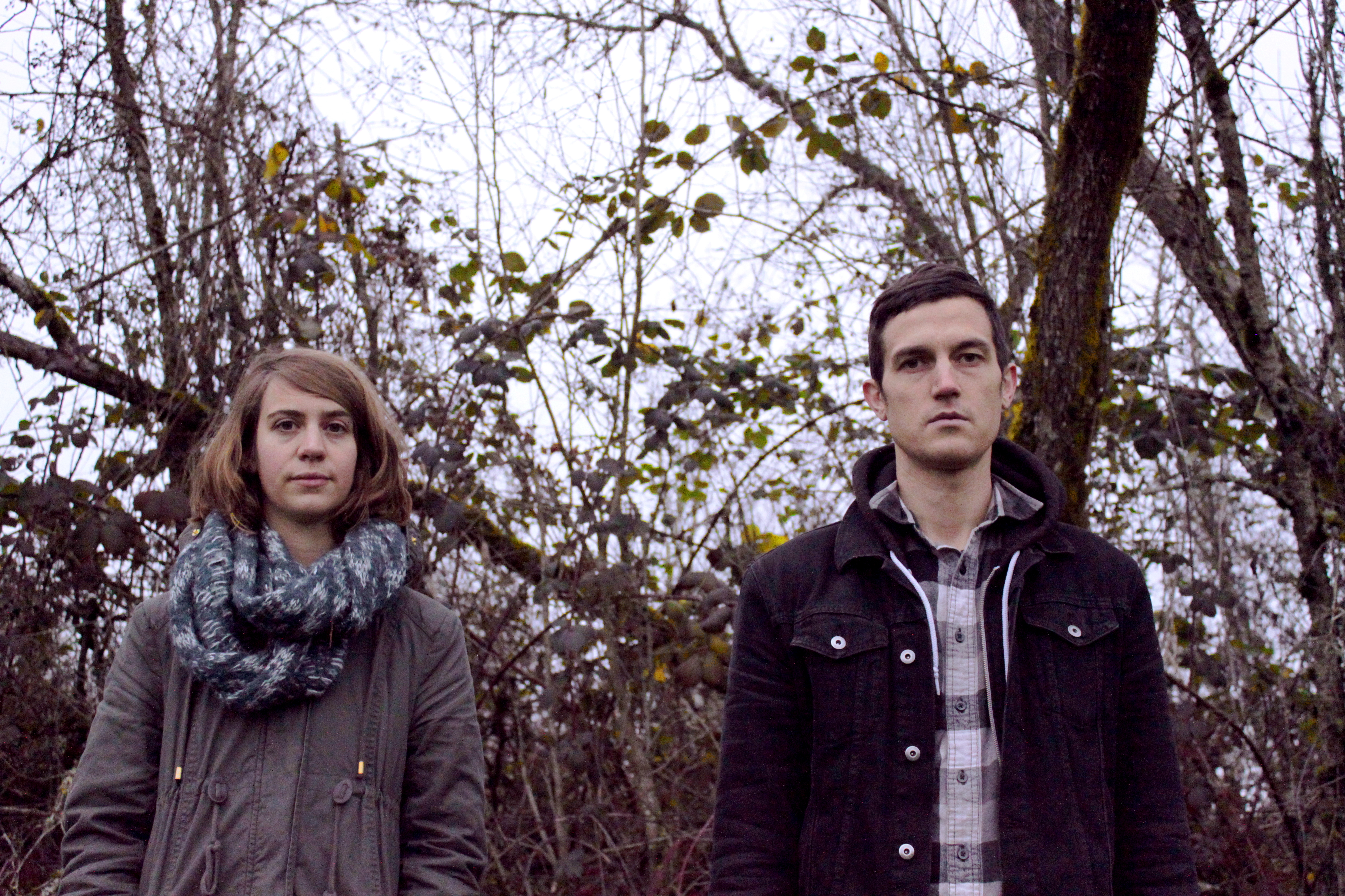 a photo of mordecai from portland, or